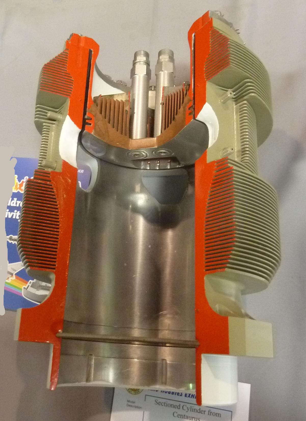 Sectioned cylinder junk head of a Bristol Centaurus radial engine At the 2015 Bristol Model Engineer show, Thornbury.